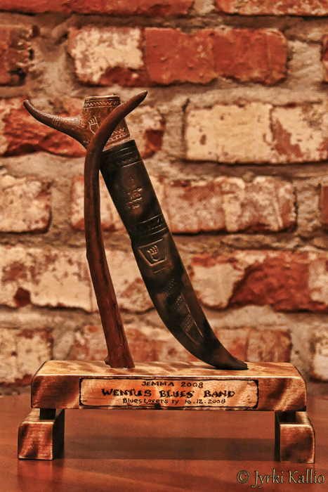 Finnish blues genre honorary award Jemma, a hand made knife.